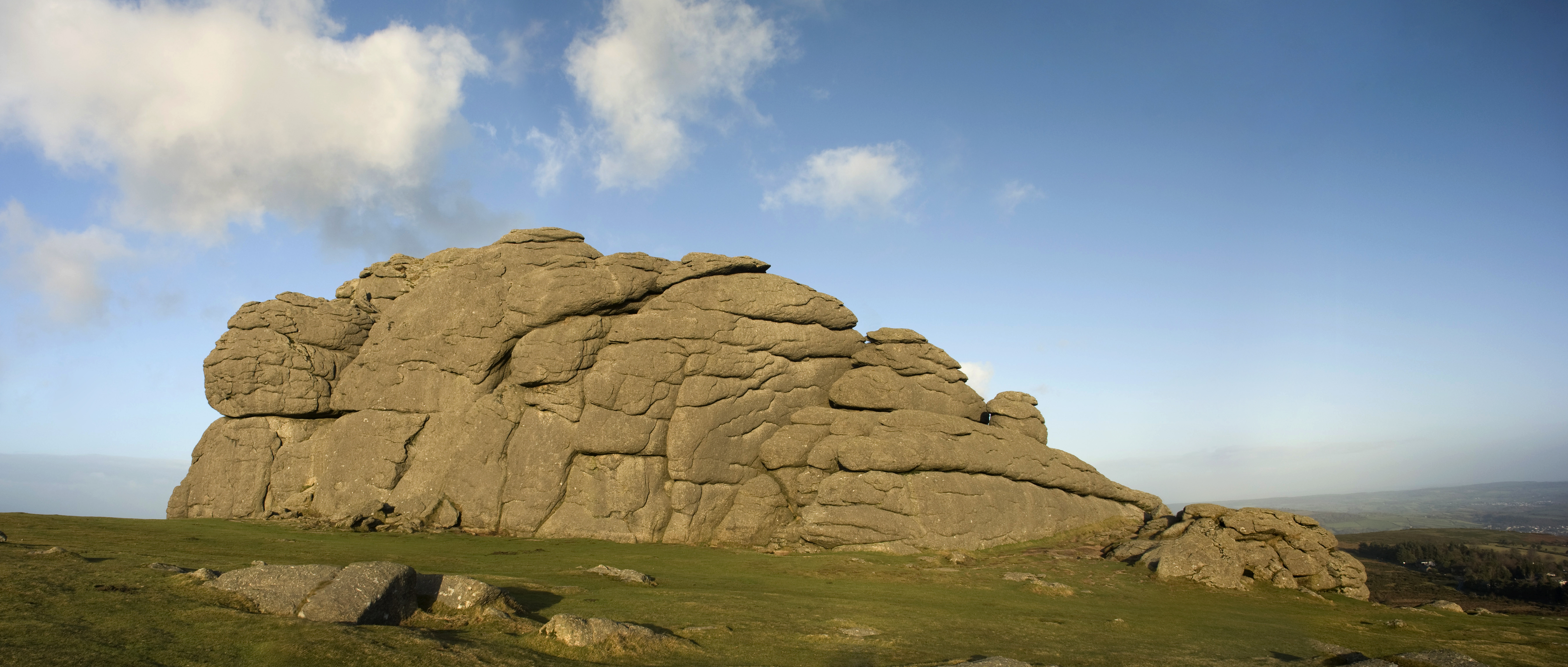 Haytor, Dartmoor, looking east as the sun sets. Devon, UK.